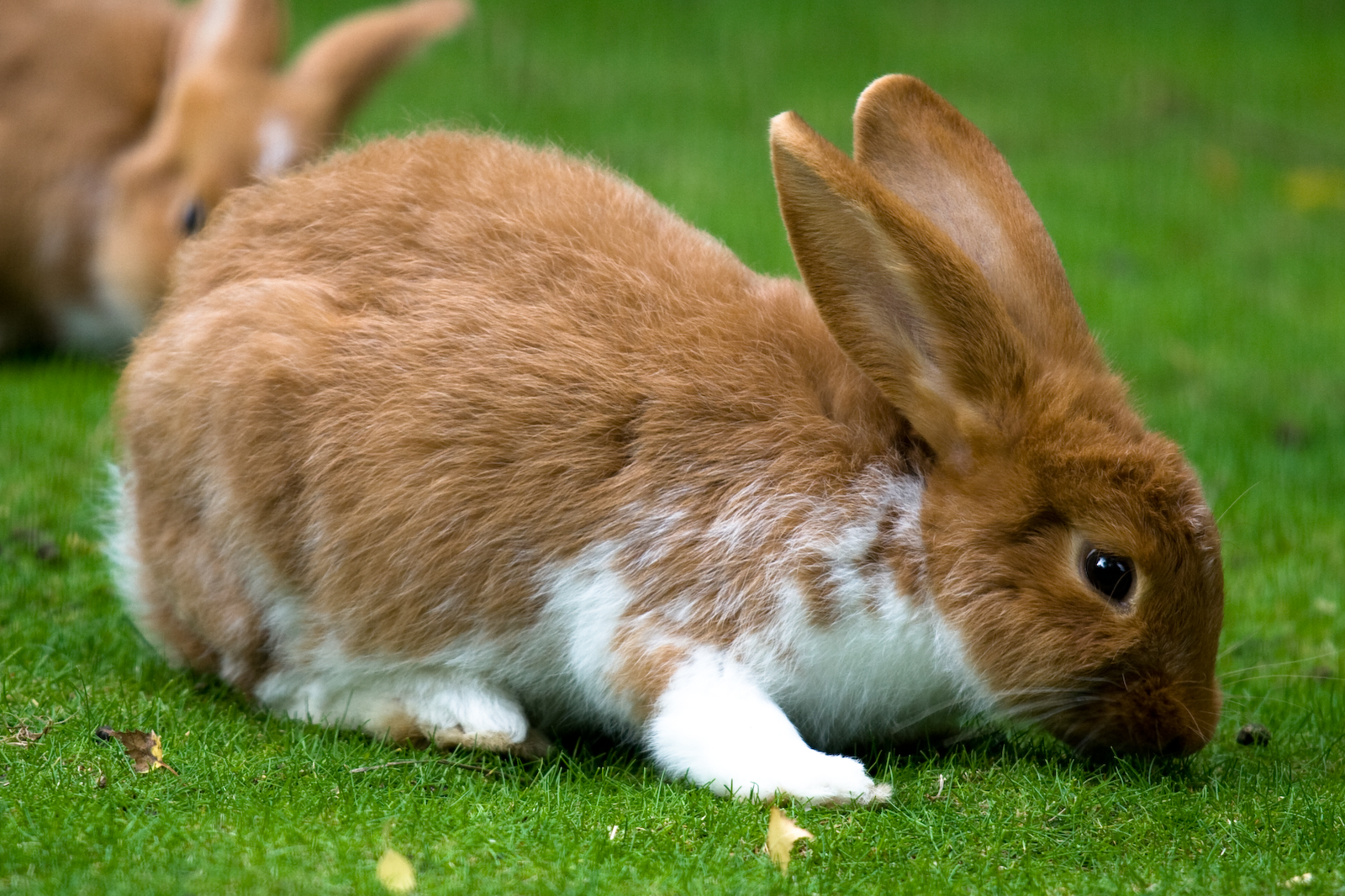 young Mecklenburger Schecke (4 month old)